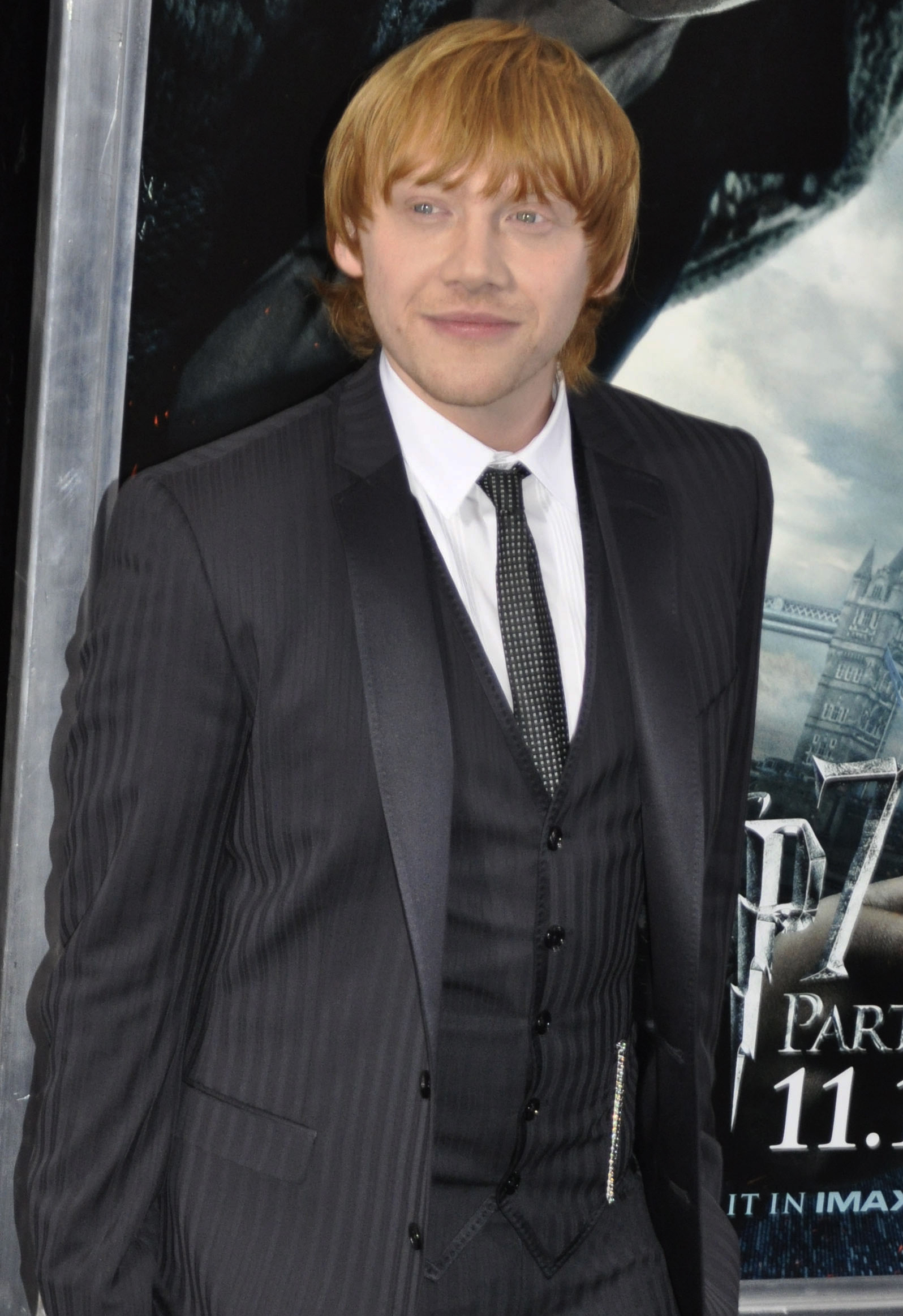 Rupert Grint at the film premiere of Harry Potter and The Deathly Hallows in Alice Tully Center, New York City in November 2010.